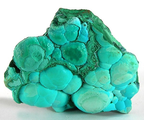 Chrysocolla, Malachite Locality: Dongchuan Cu ore field, Dongchuan District, Kunming Prefecture, Yunnan Province, China (Locality at ) Size: 5.4 x 4.2 x 1.8 cm. A superb specimen from the very little-known Chinese locality of Dongchuan - a plate of botryoidal malachite with a layer of robin’s-egg blue chrysocolla, with a shimmering eggshell luster. Hints of green accent the pretty bright blue.